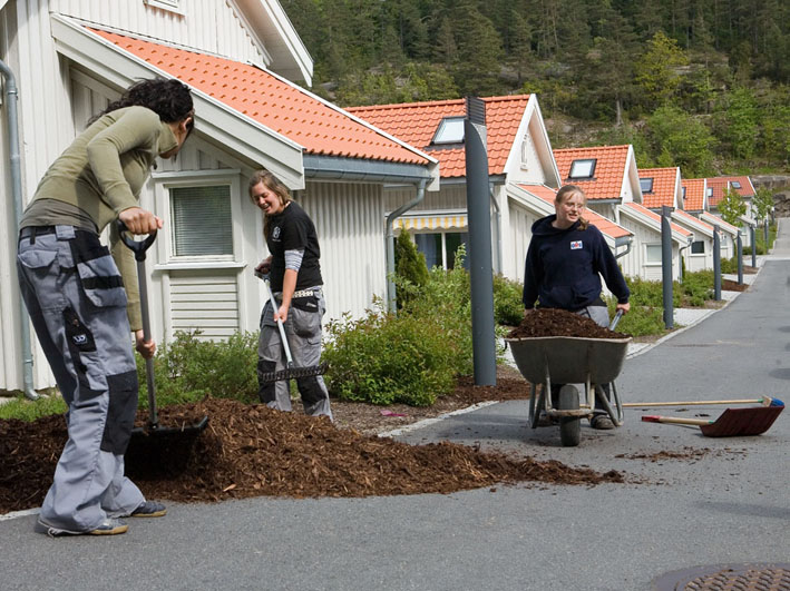 YEP workers on Brunstad Conference Center